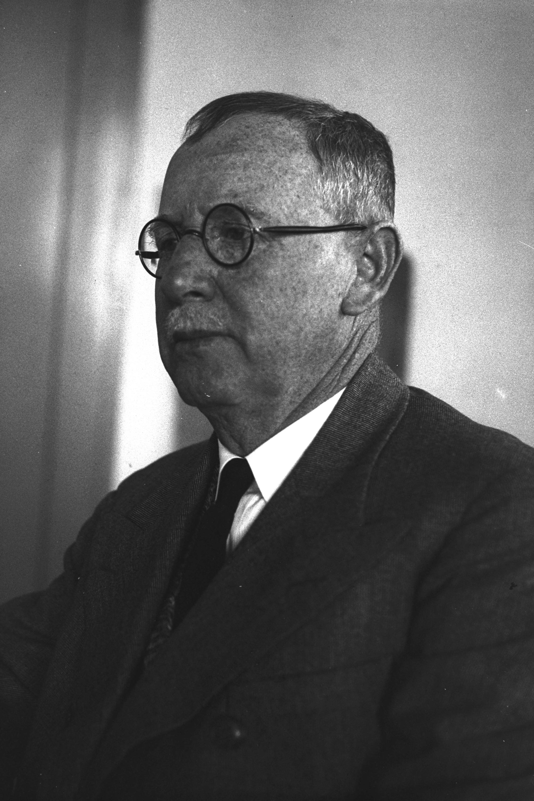 ELIYAHU KRAUSE, DIRECTOR OF THE MIKVE ISRAEL AGRICULTURAL SCHOOL. אליהו קראוס, מנהל בית הספר החקלאי "מקווה ישראל".